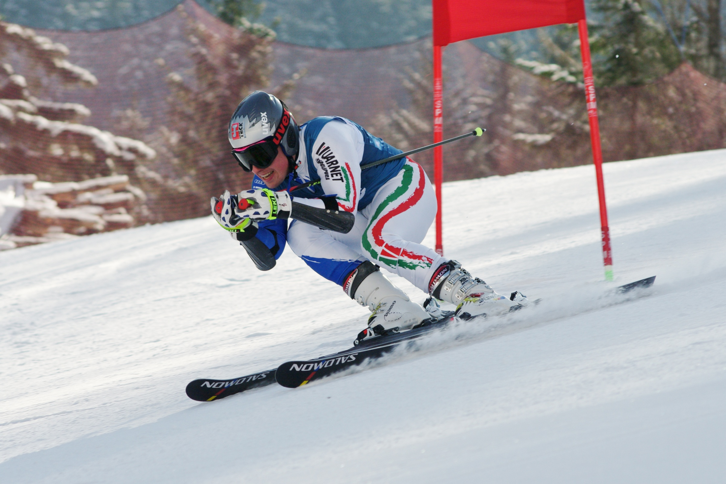 Italian alpine skier Luca De Aliprandini in the first run of the FIS Giant Slalom in Hinterstoder, Austria, on 8 March 2010.